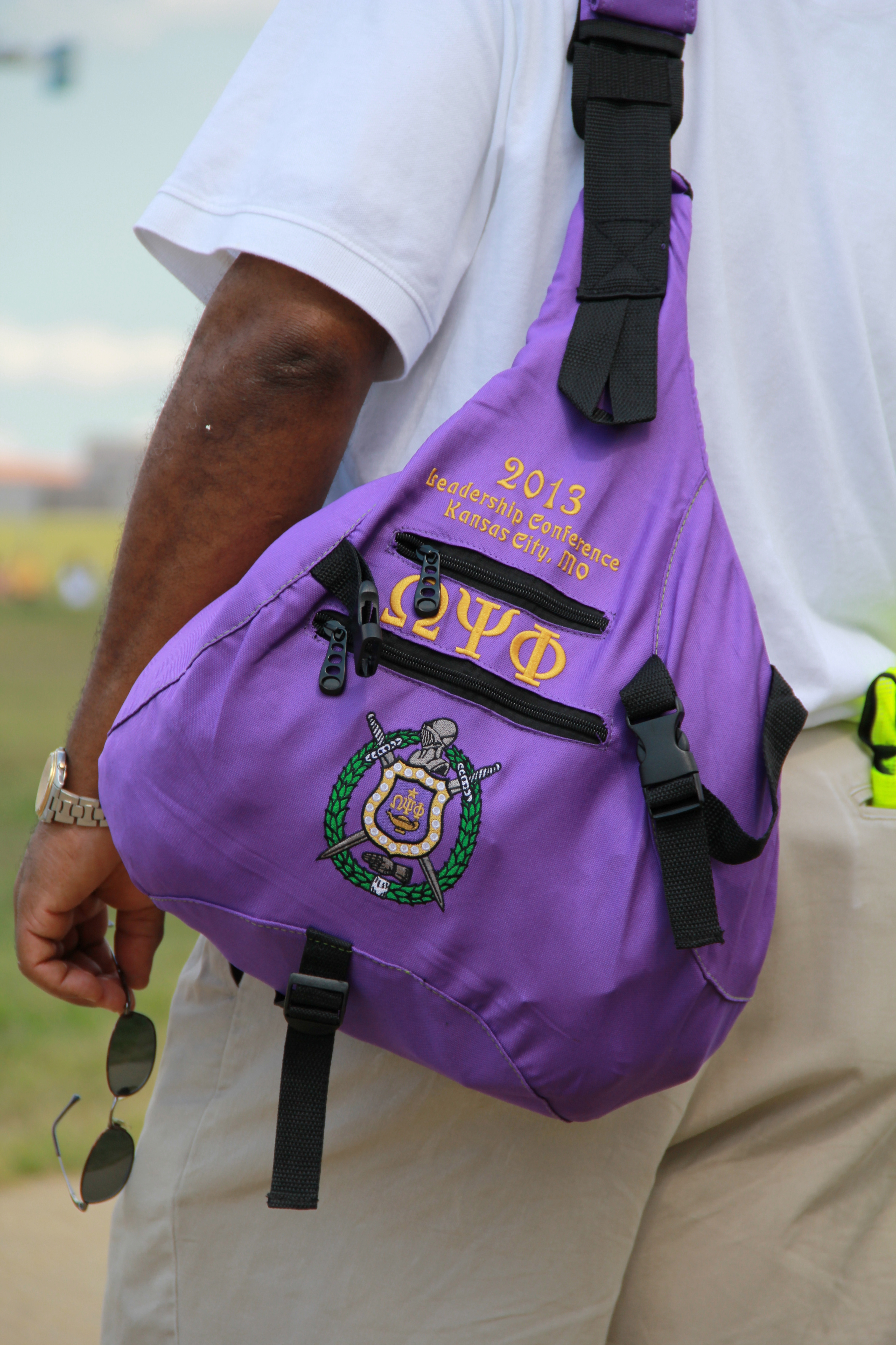 A sling backpack. 50th Anniversary of the March on Washington for Jobs and Freedom.